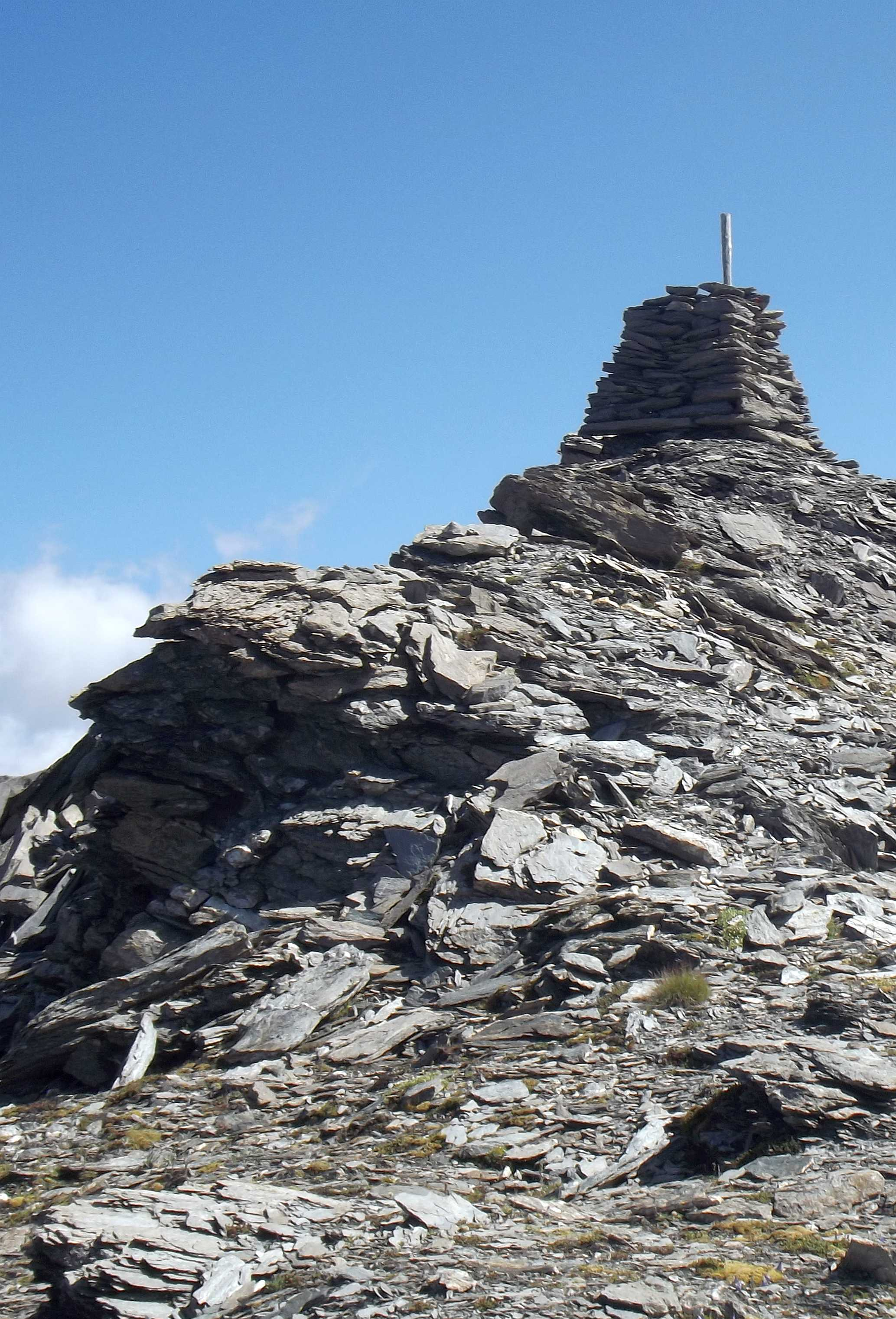 Punta Valfredda (Cottian Alps, Italy): the cairn on its top